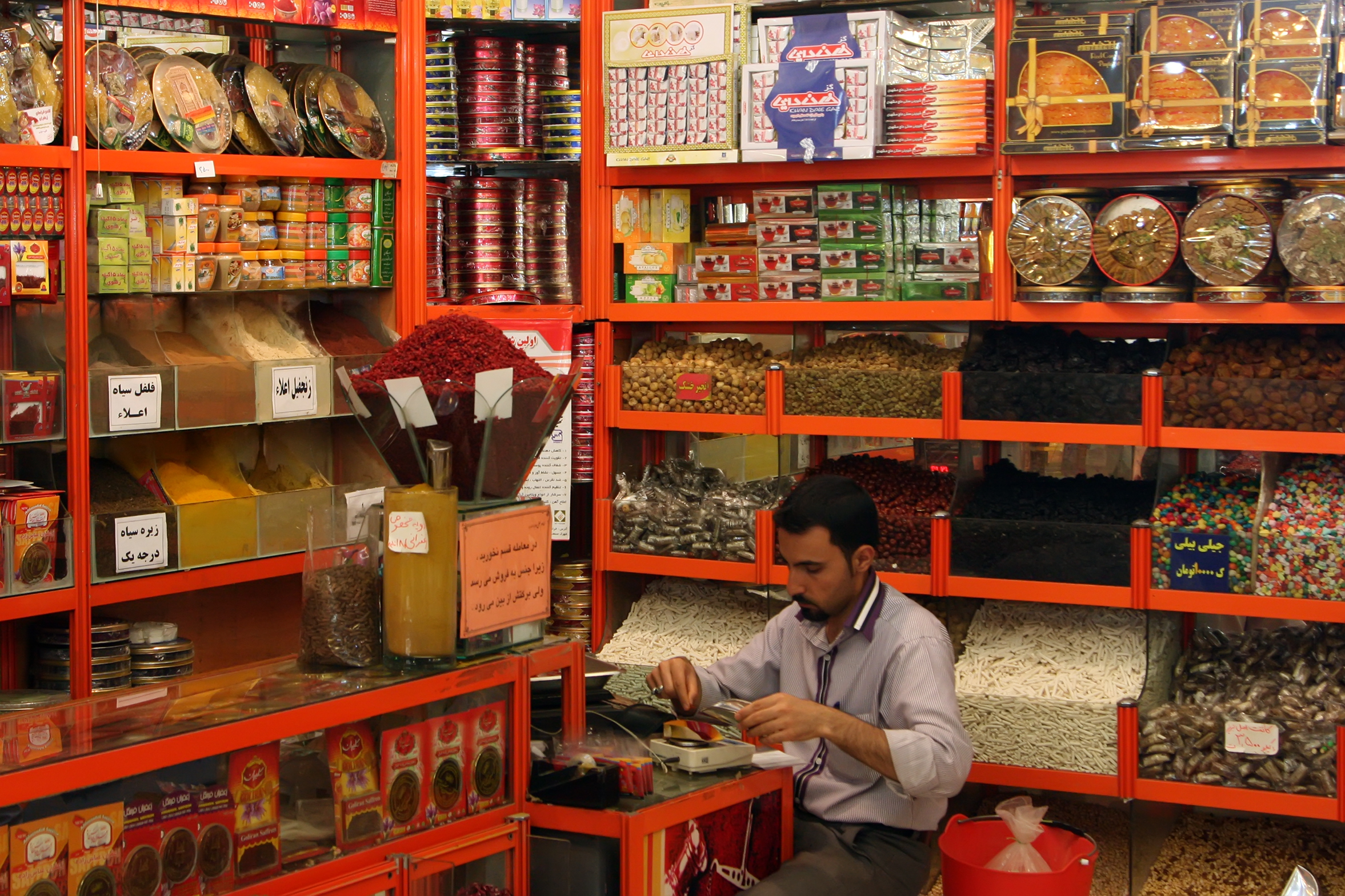 A spice shop in Mashad, Iran